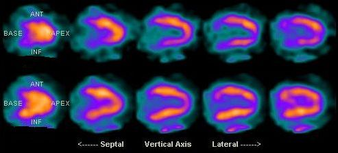 Cardiac nuclear medicine scans reconstructed without (top row) and with (bottom row) attenuation correction. Generated by Kieran Maher using Graphic Converter. marz 14:25, 11 October 2006 (UTC)